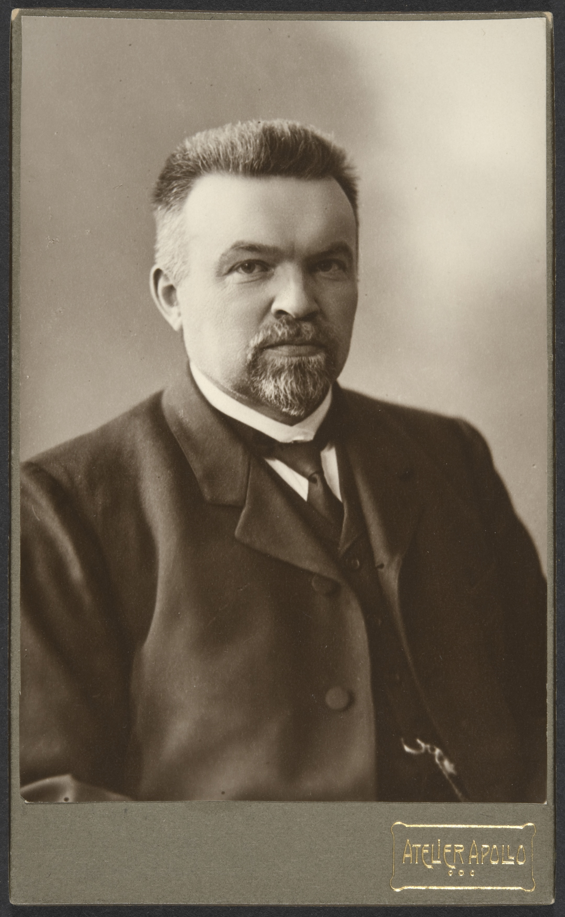 Photograph of the Finnish theologian, bishop Erkki Kaila (1867–1944).